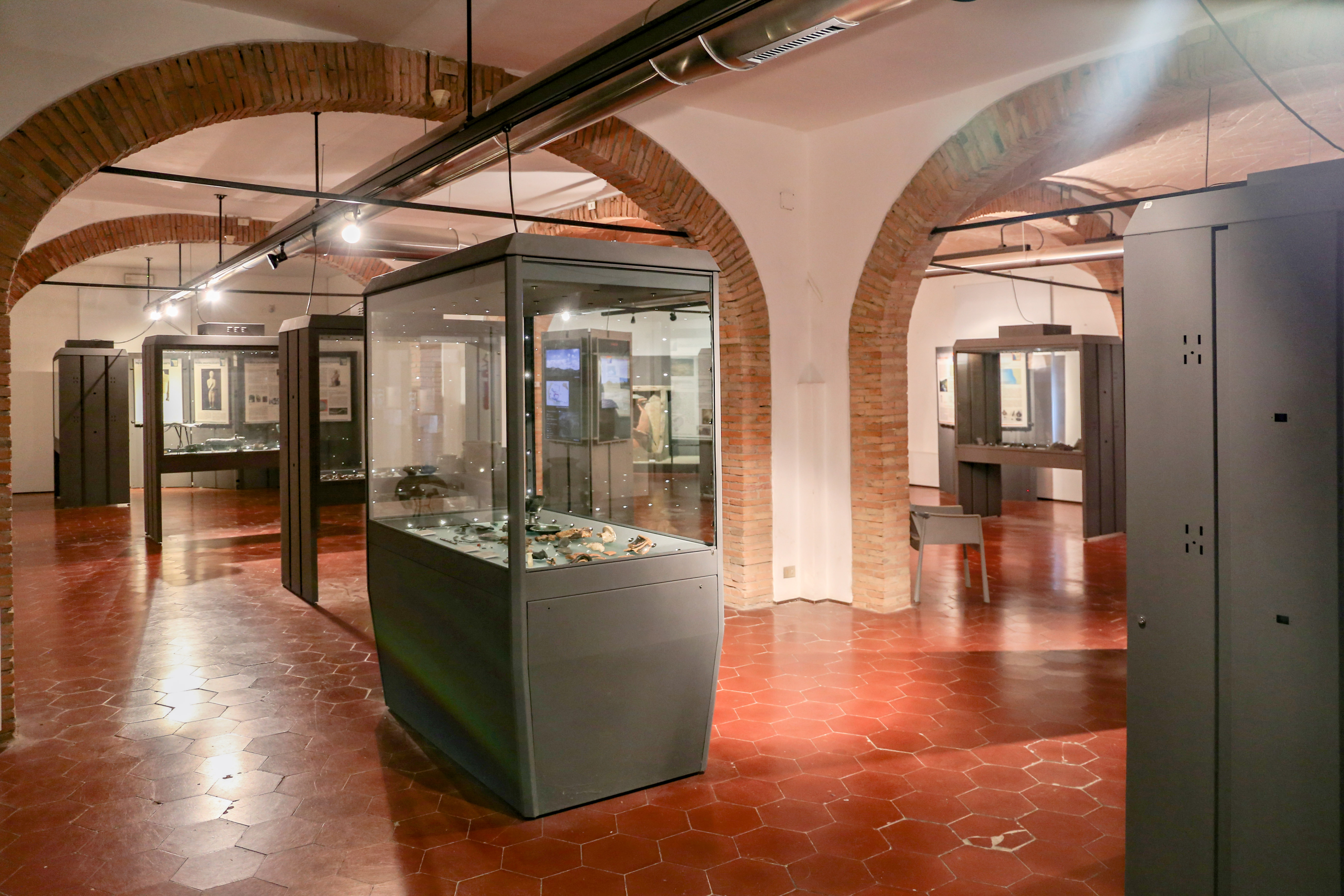 Museo comunale archeologico La Cinquantina (Cecina)